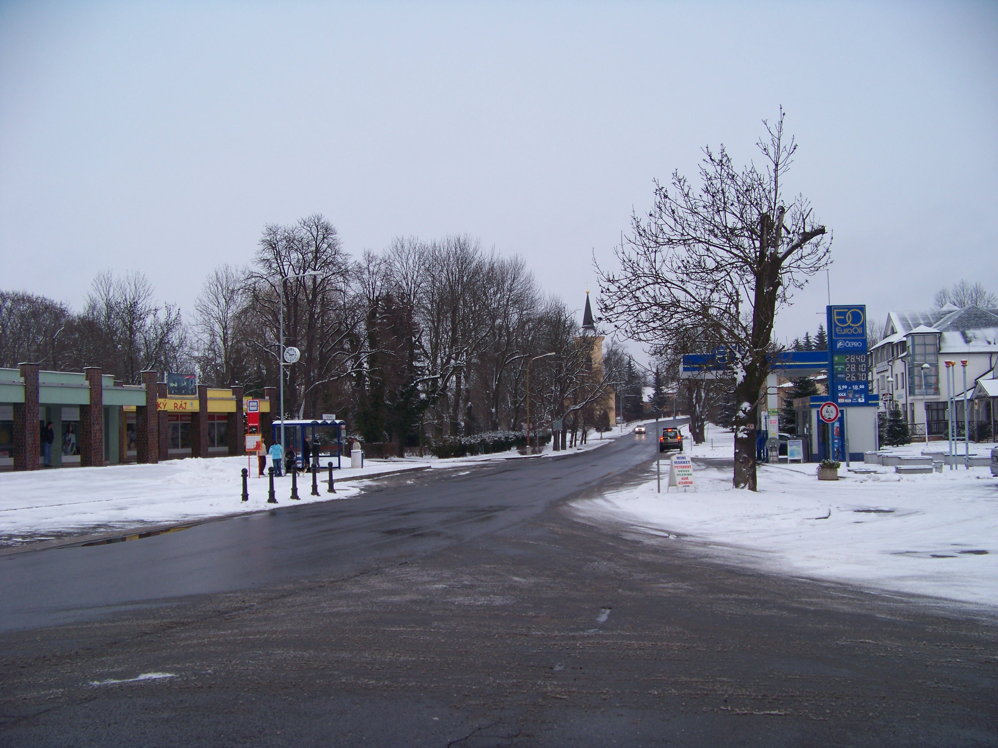 Tuchlovice, Kladno District, Central Bohemian Region, the Czech Republic. The Square.